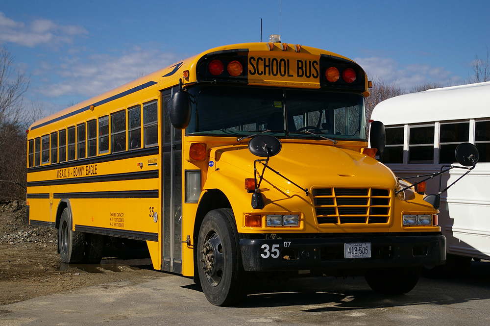 A 2007 Blue Bird Vision school bus, belonging to Maine School Administrative District 6, photographed in Portland, Maine.